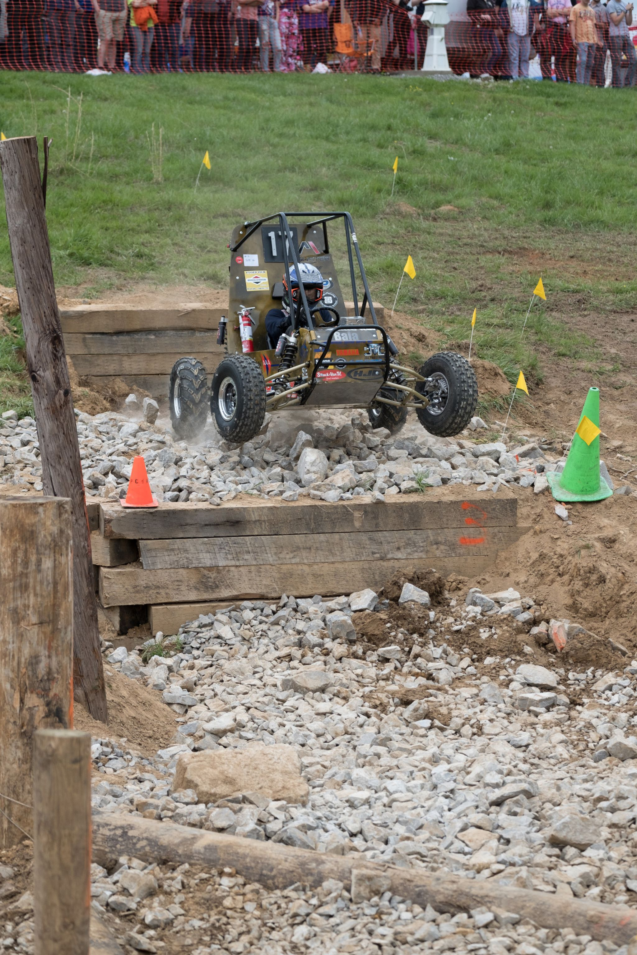 Jump